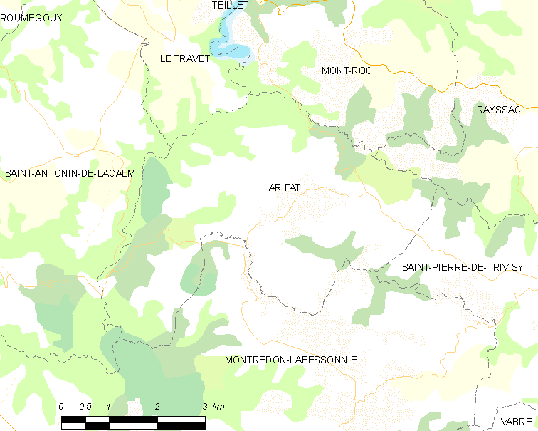 Map commune FR insee code 81017.png - Arifat